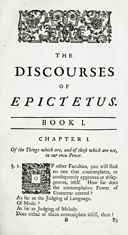 Page 1 of All the works of Epictetus : which are now extant; consisting of his Discourses, preserved by Arrian, in four books, the Enchiridion, and fragments; by Elizabeth Carter. John Adams Library (Boston Public Library)